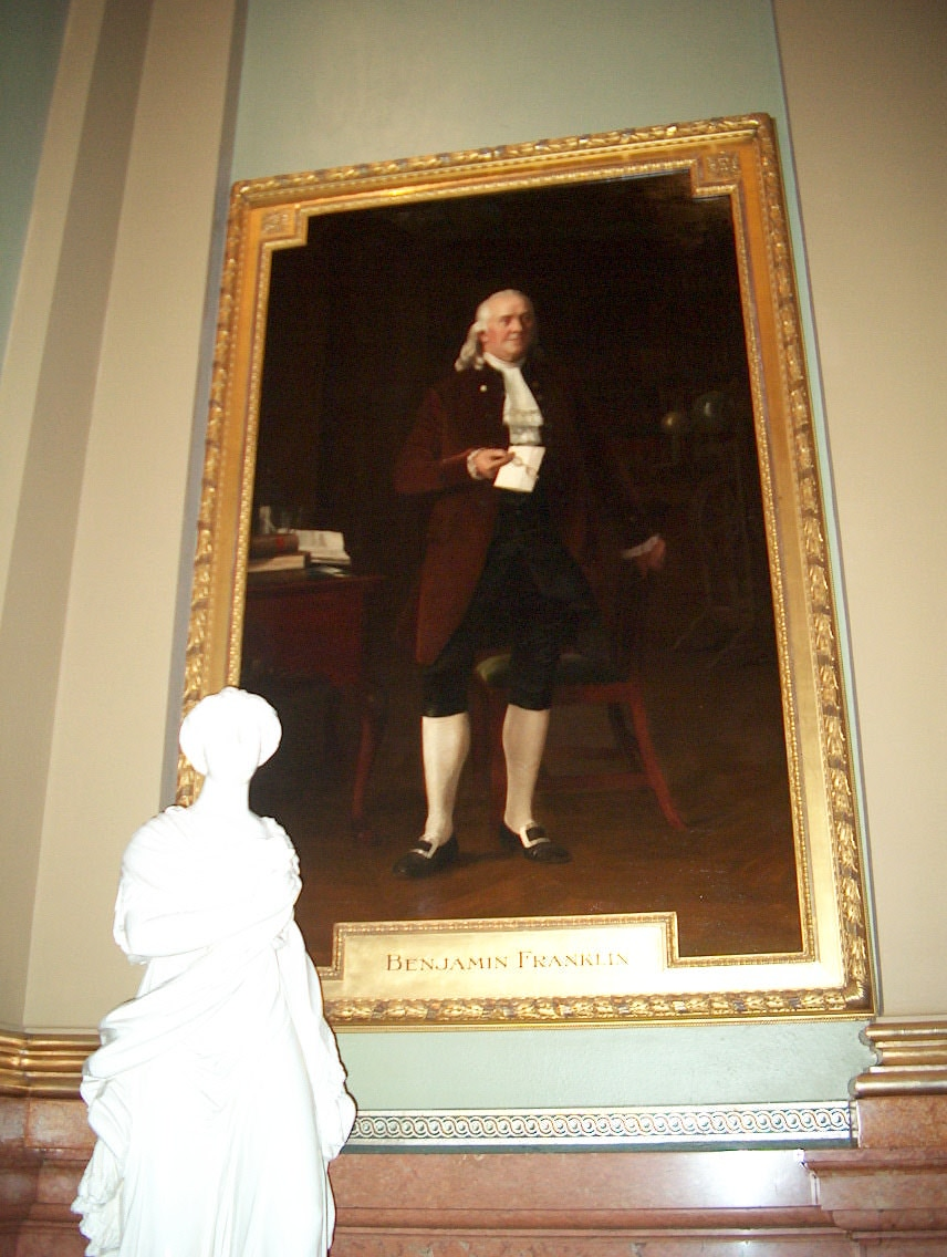 Masonic Temple of Philadelphia